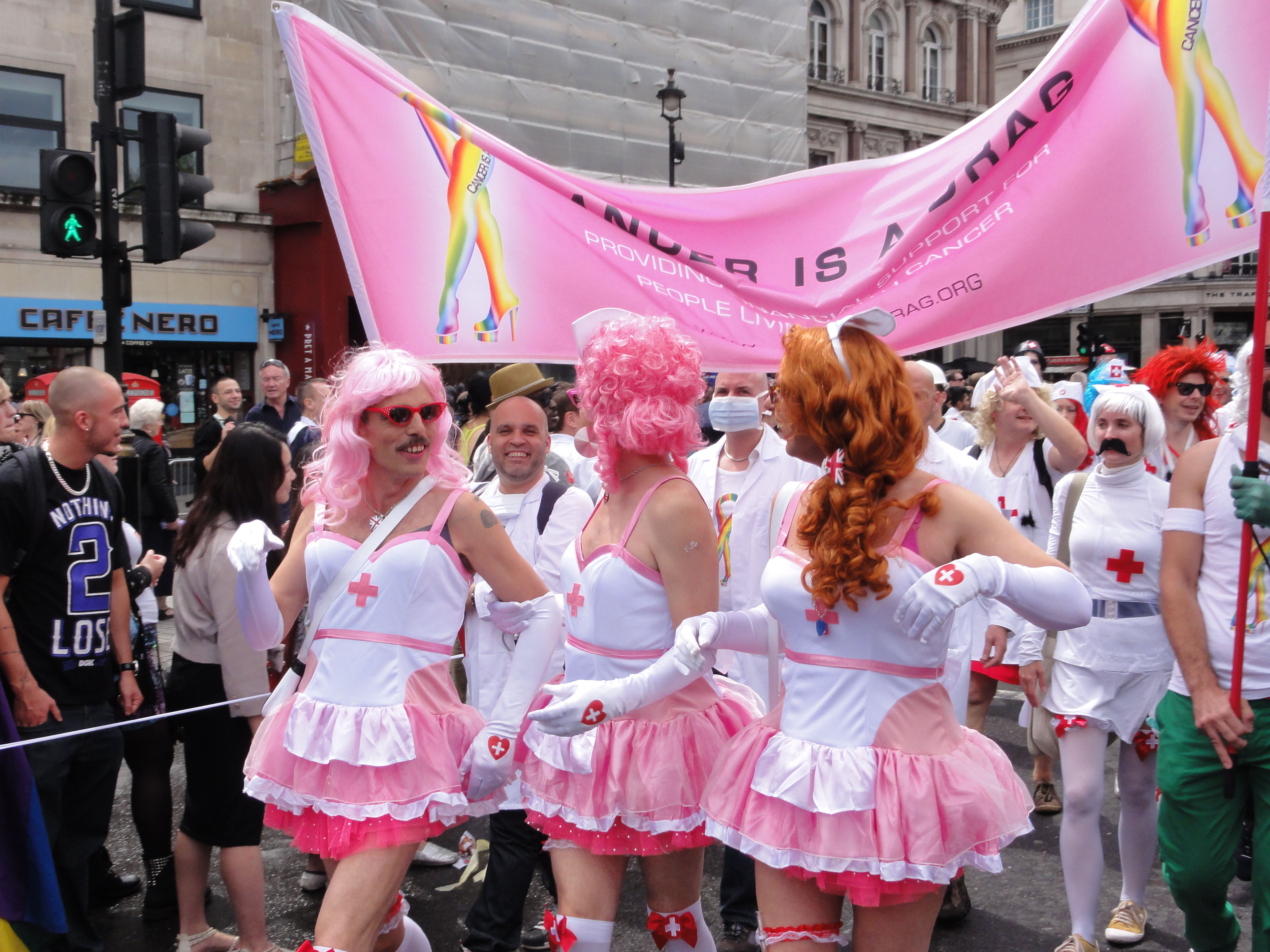 Photos at Trafalgar Square during World Pride / Pride London 2012.